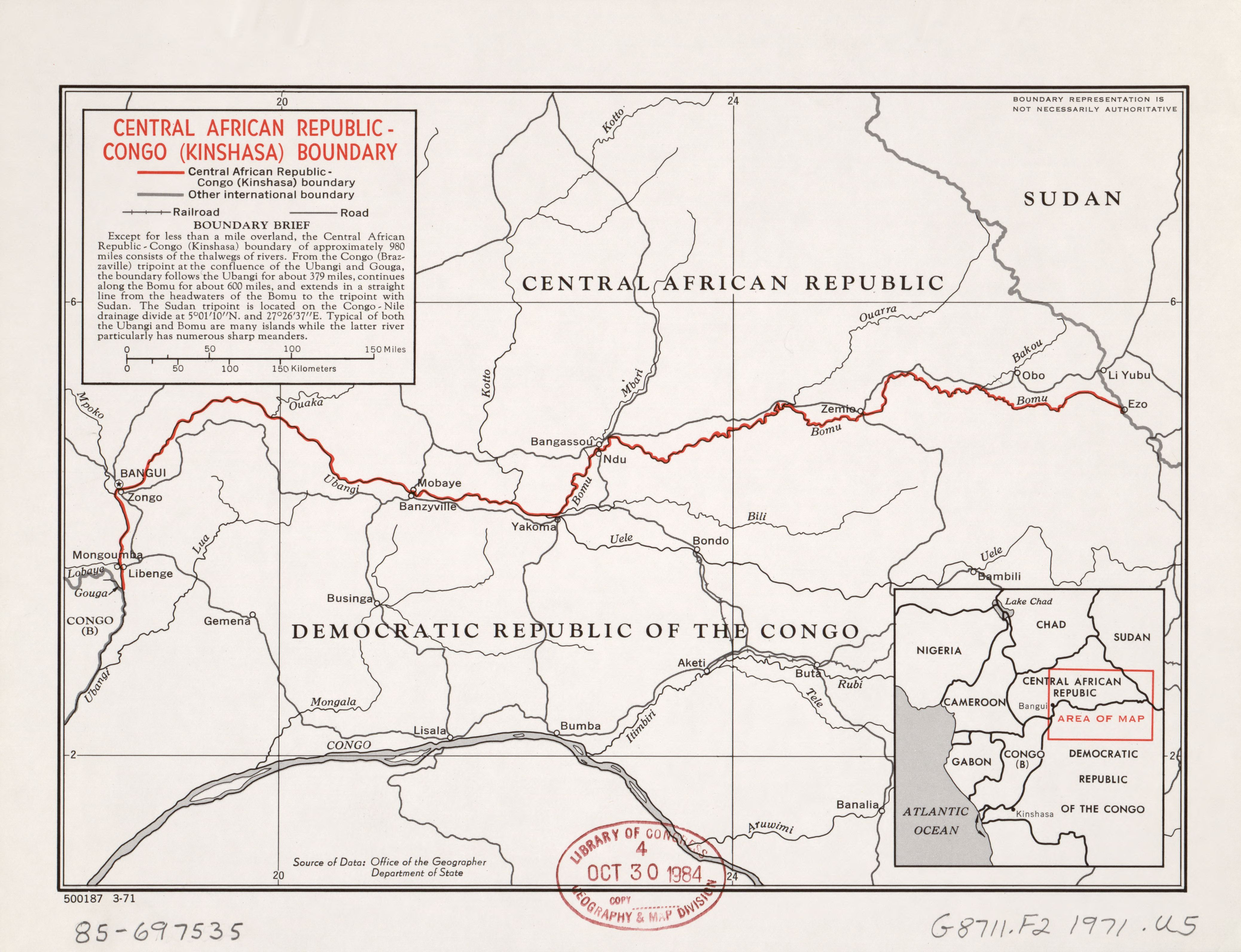 "500187 3-71." "Source of data: Office of the Geographer, Department of State." Includes note and key map. Available also through the Library of Congress Web site as a raster image.